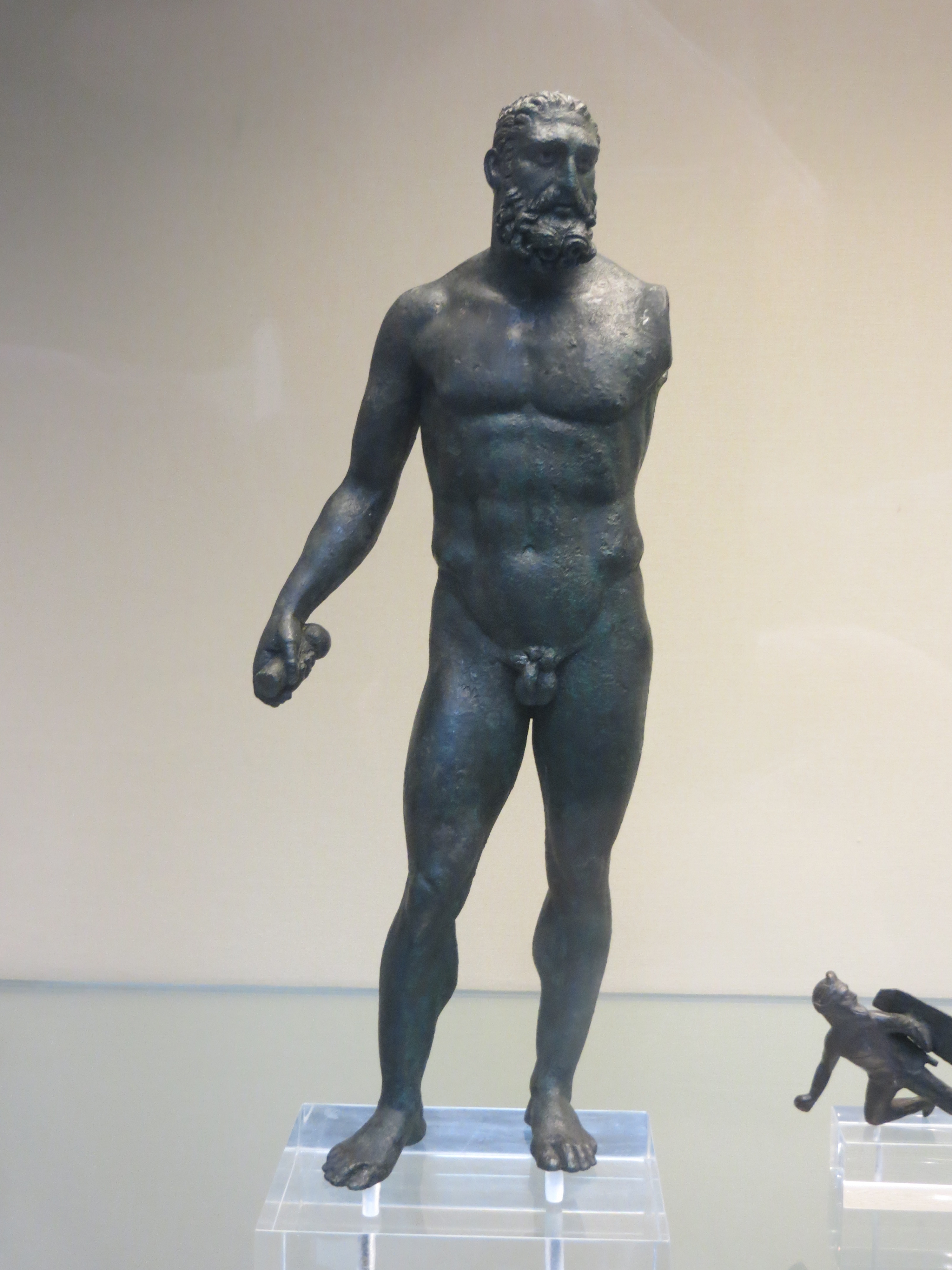 Roman Statuette from Bavay, France in the British Museum, probably depicting Hercutles. Bronze. 2nd Century AD. British Museum catalogue entry.